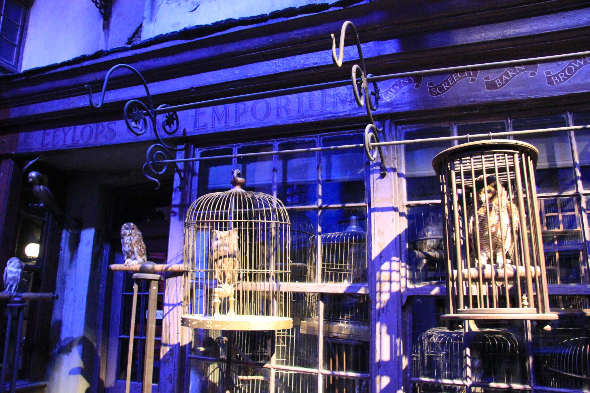 Warner Bros. Studio Tour London: The Making of Harry Potter.